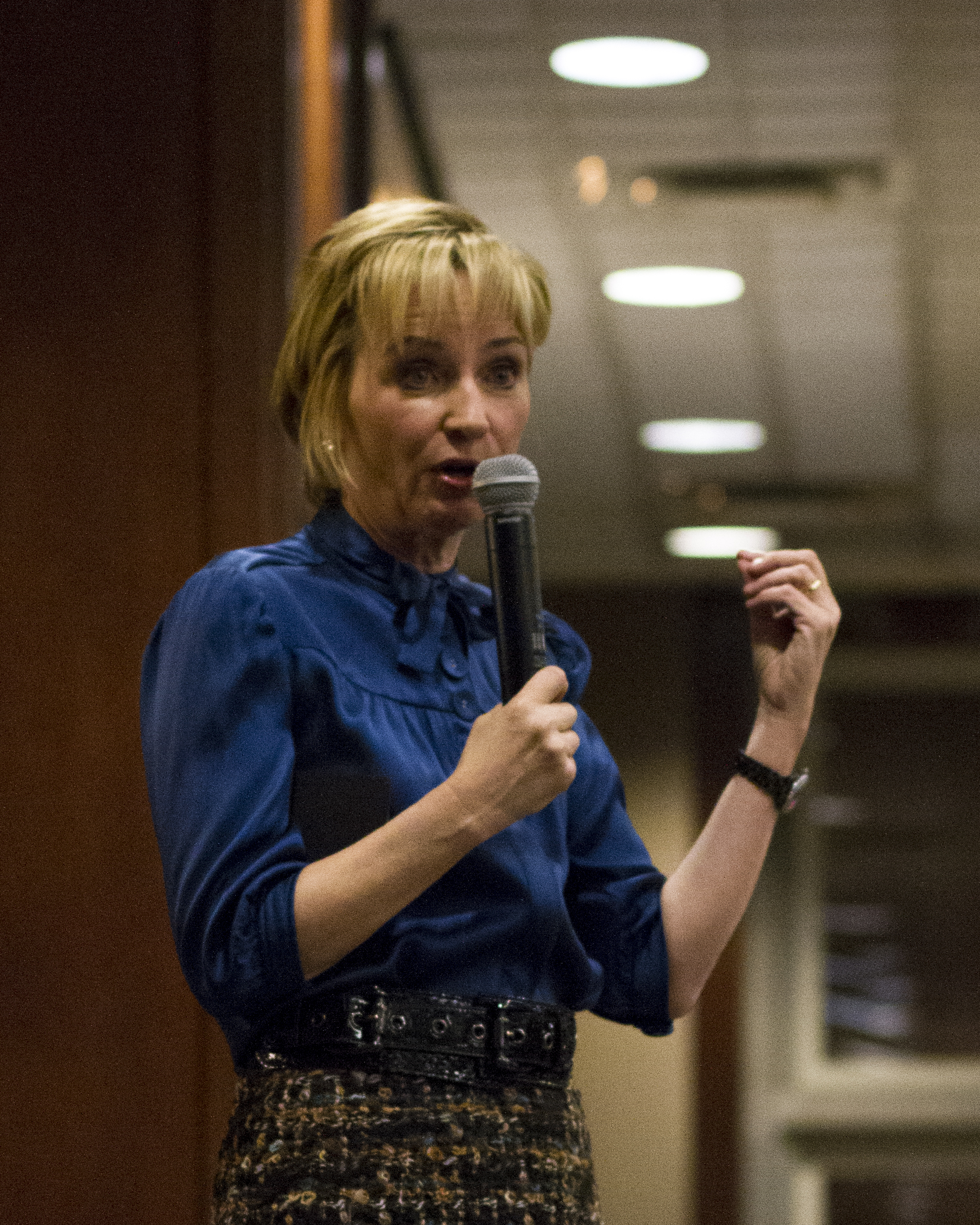 Kate White speaks at Stotler Lounge in Memorial Union at the University of Missouri.